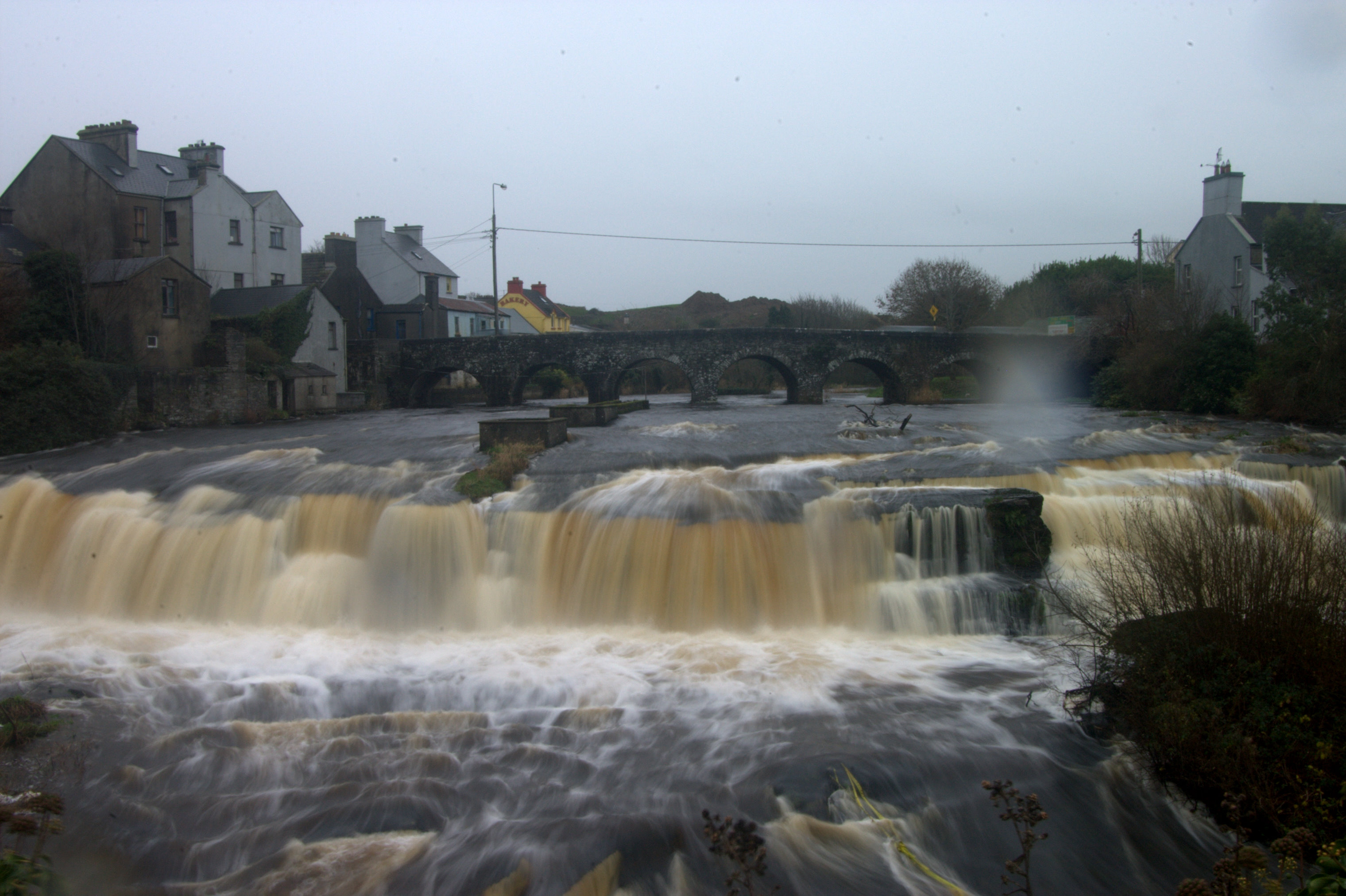 The Cascades, Inagh River Falls in spate, Ennistymon, Co. Clare Ireland. Danny Burke